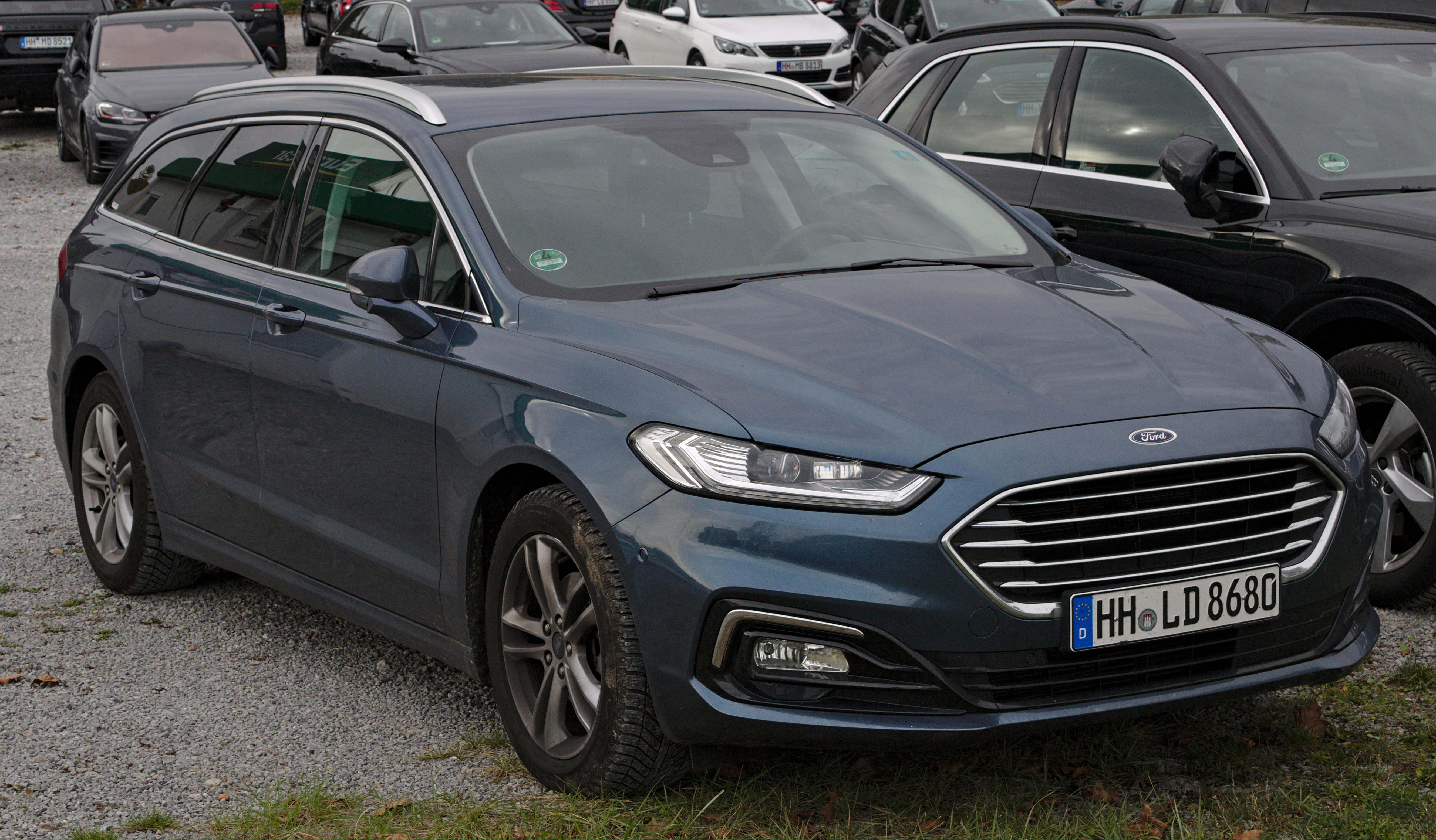 Ford_Mondeo_Mk_V_(estate) in Stuttgart-Vaihingen